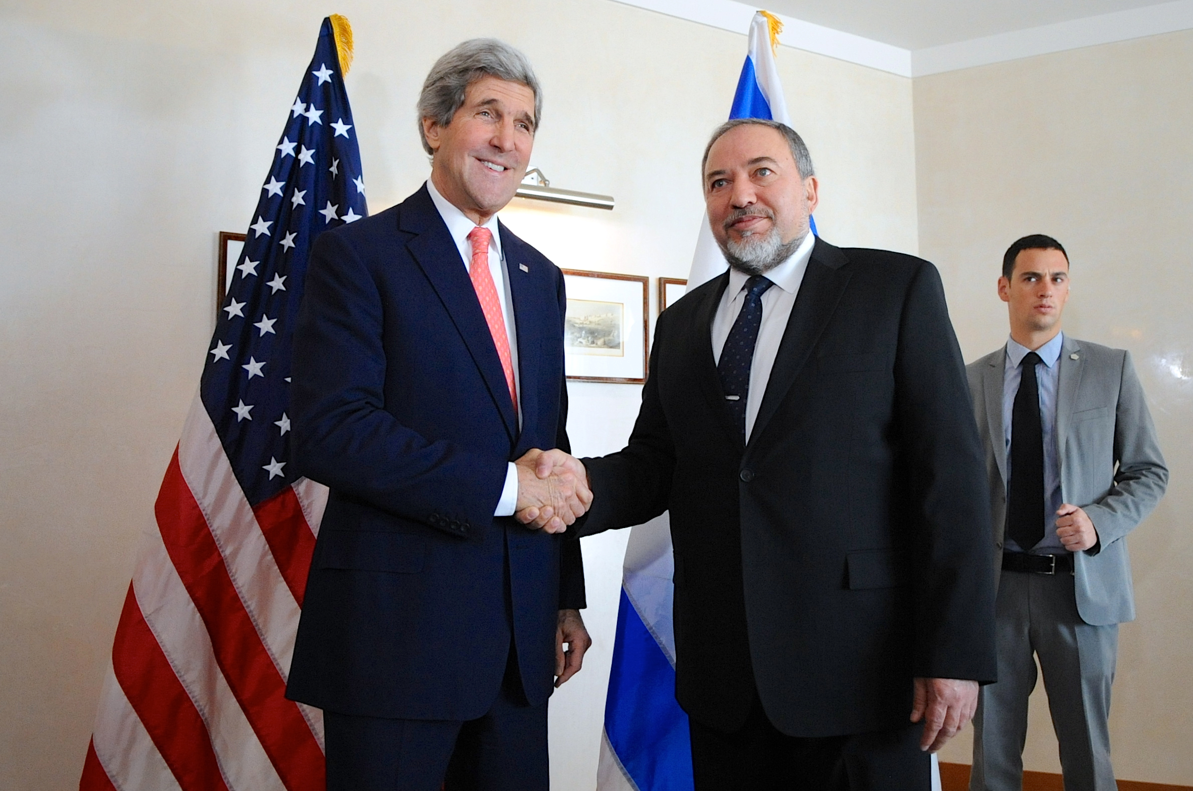 U.S. Secretary of State John Kerry and Israeli Foreign Minister Avigdor Lieberman shake hands before a meeting in Jerusalem on January 3, 2014. [State Department photo/ Public Domain]